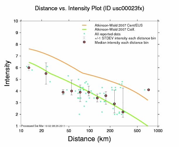 Shizuoka Earthquake (March 15, 2011) Distance vs. Intensity Plot